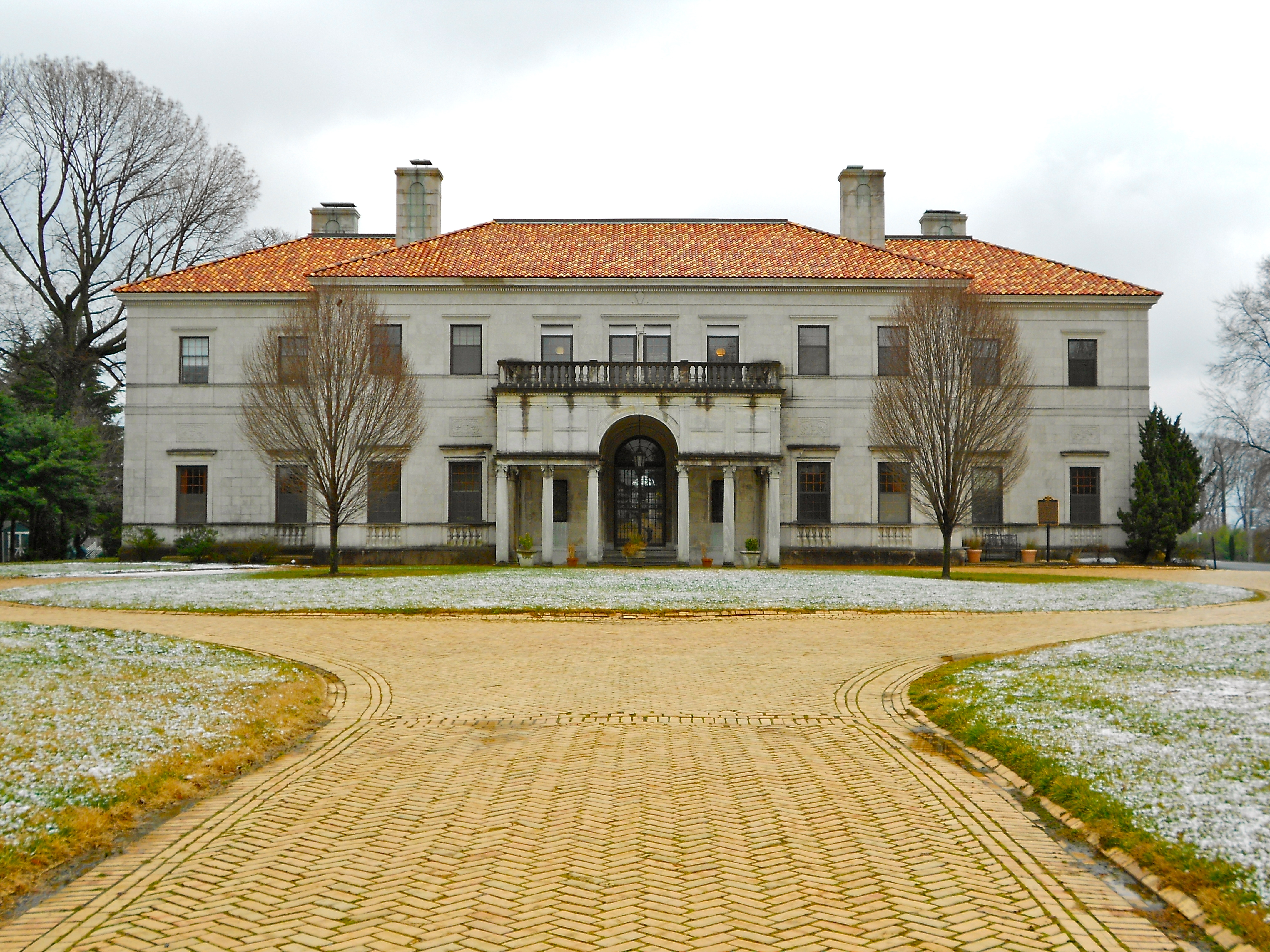 The Patio at Archmere Academy on the NRHP since September 9, 1992. At 3600 Philadelphia Pike, Claymont, Delaware about 4 blocks south of I-495